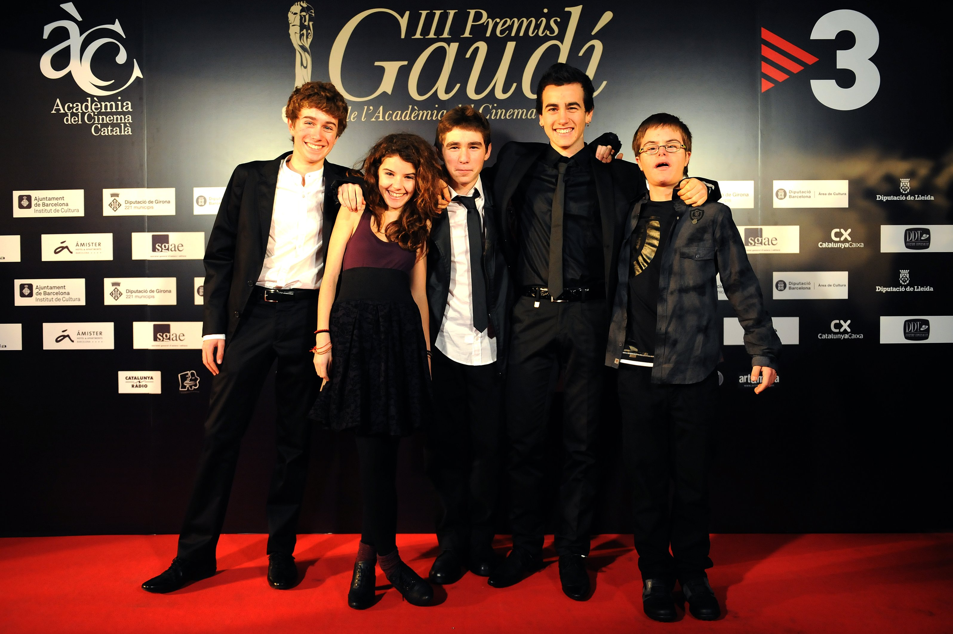 Photo of actors of Herois in the soiree of Gaudí Awards 2011